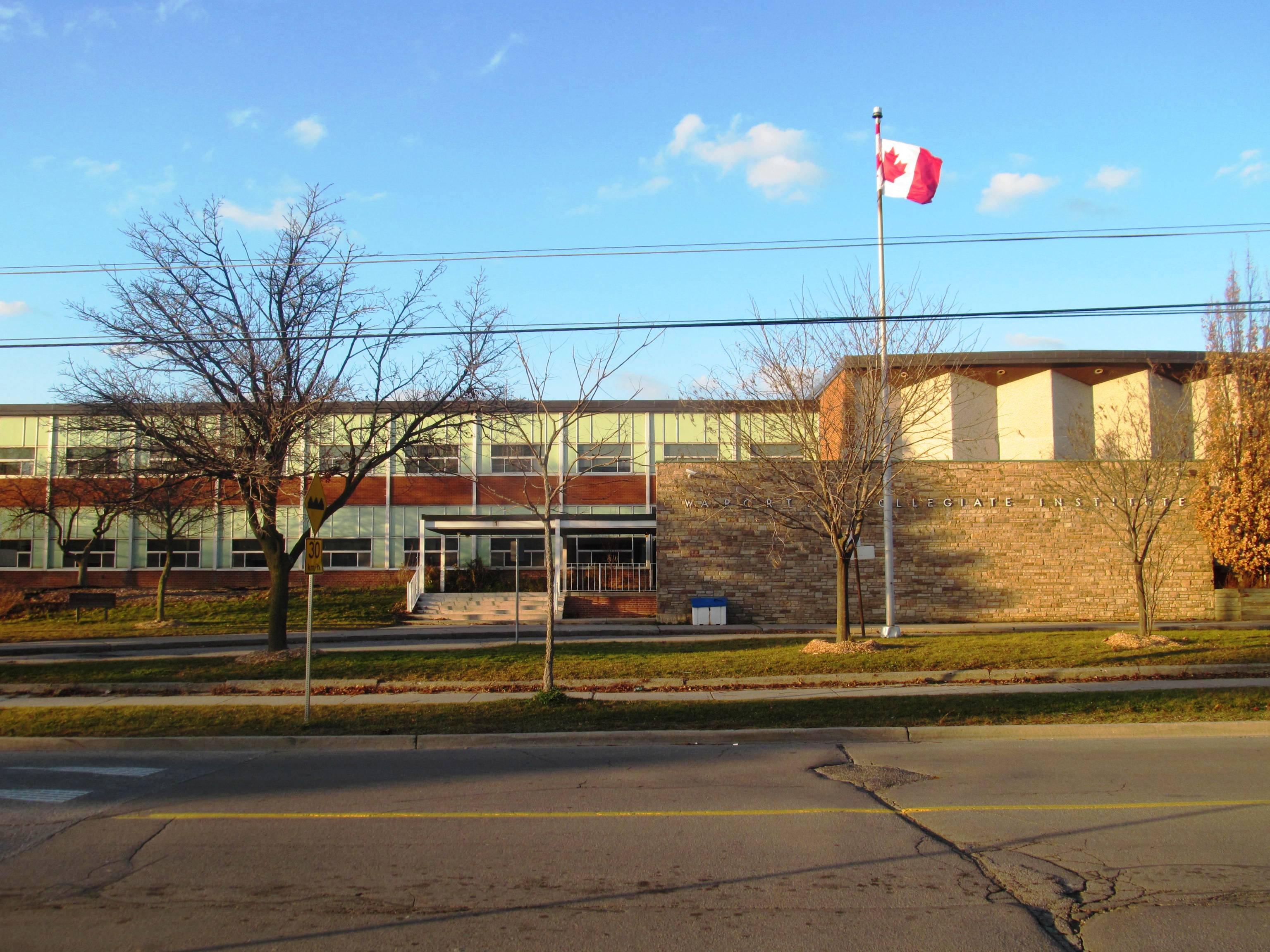 A view of SATEC @ W.A. Porter Collegiate Institute, Dec 2015.